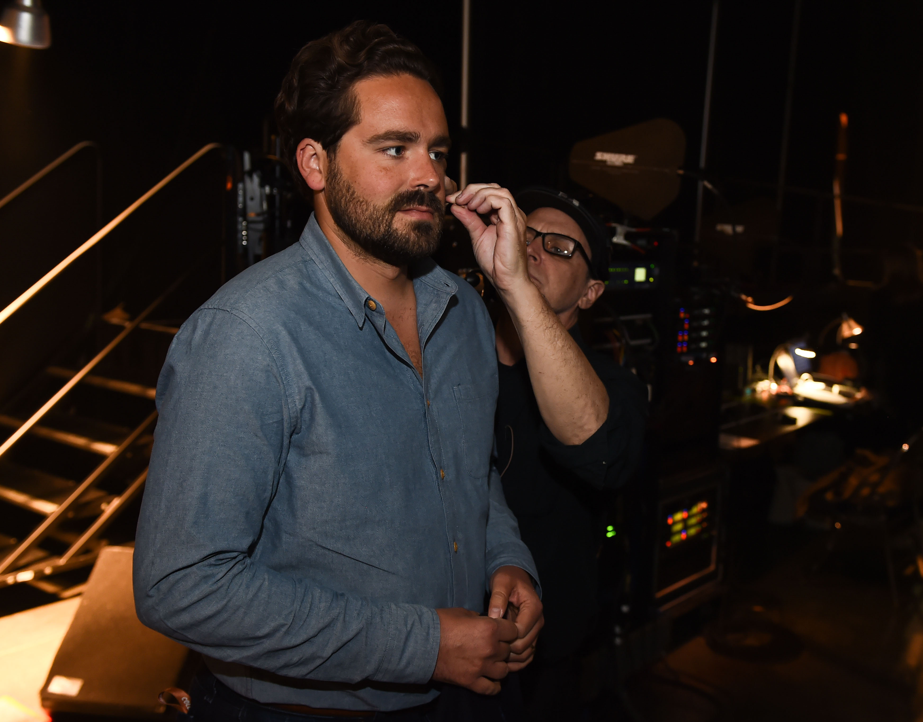 2 May 2018; Dylan Byers, CNN, at Center stage during day two of Collision 2018 at Ernest N. Morial Convention Center in New Orleans. Photo by Stephen McCarthy/Collision via Sportsfile